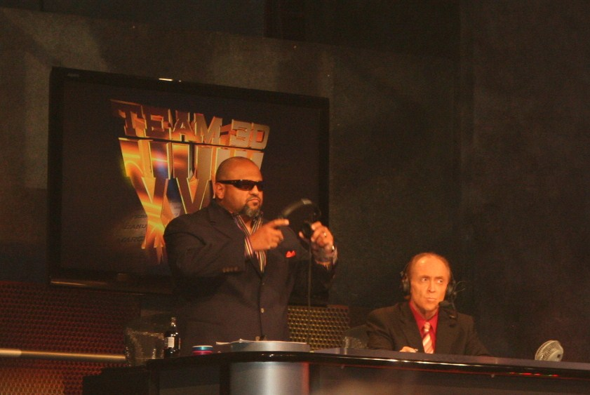 Commentators Tazz (left) and Mike Tenay (right) at the TNA Impact! tapings on July 26, 2010.